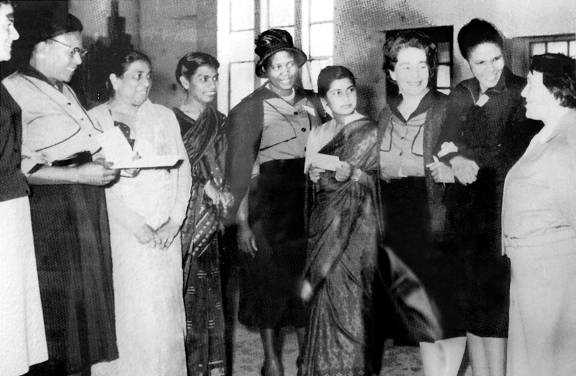 Federation of South African Women: African, Hindu and Christian women gathered near Apartheid era prison to protest against Apartheid in 1955. The Hindu women can be seen in traditional sari.(Violet Weinberg is third from the right)